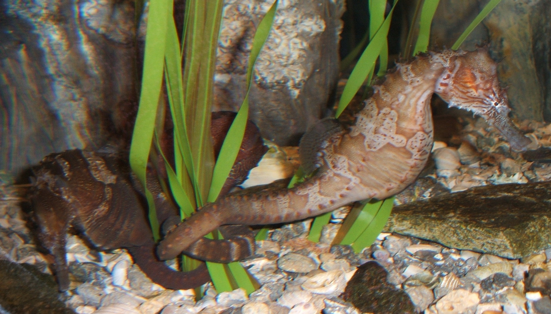 Seahorse (Hippocampus erectus). Taken at the New England Aquarium (Boston, MA, December 2006. Copyright © 2006 Steven G. Johnson and donated to Wikipedia under GFDL and CC-by-SA.